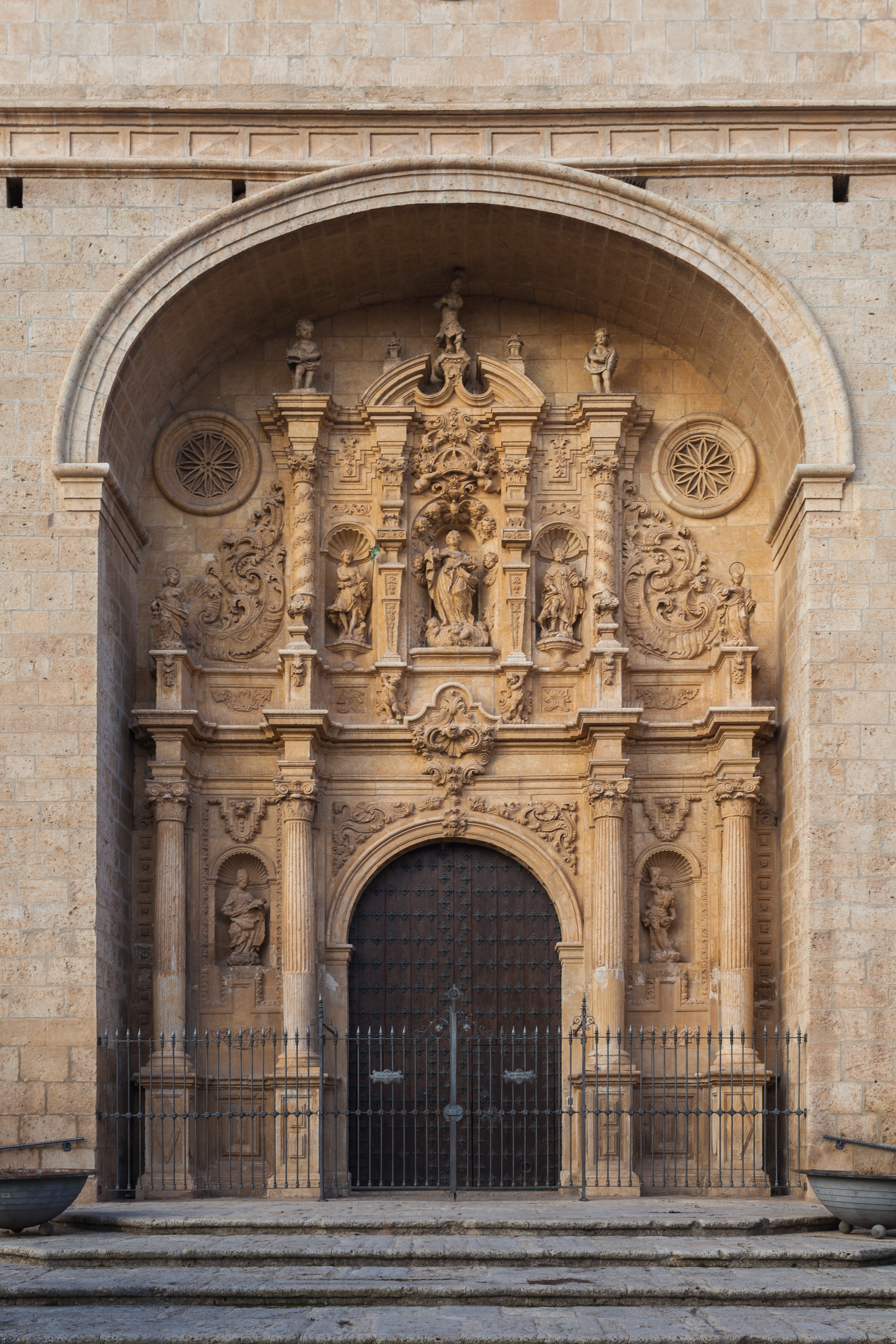 St Mary church, Calamocha, Teruel, Spain